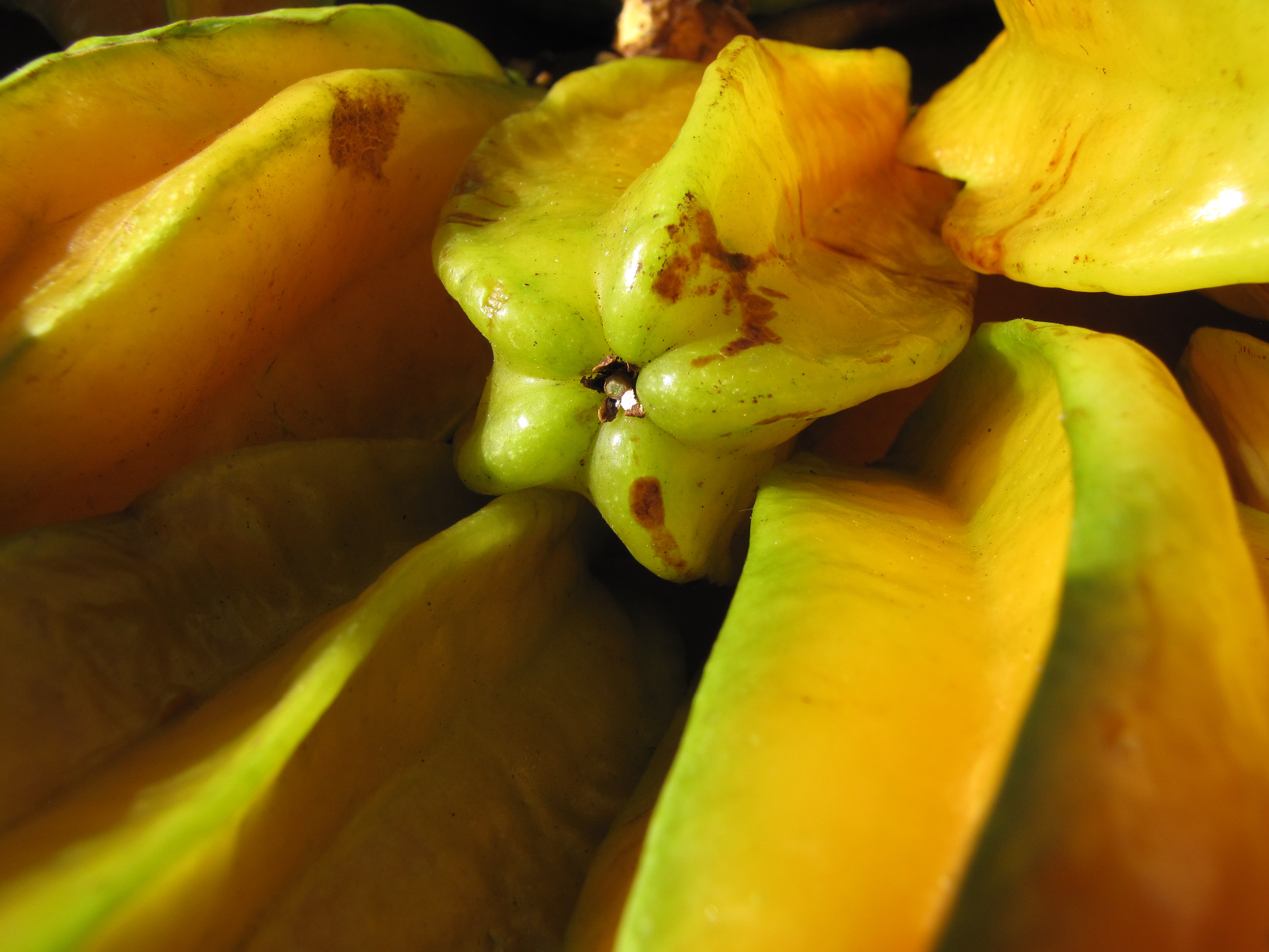 Averrhoa carambola (Star fruit, carambola) Fruit with breadfruit from Pali o Waipio at Hawea Pl Olinda, Maui, Hawaii. November 09, 2012 #121109-0905 Image Use Policy